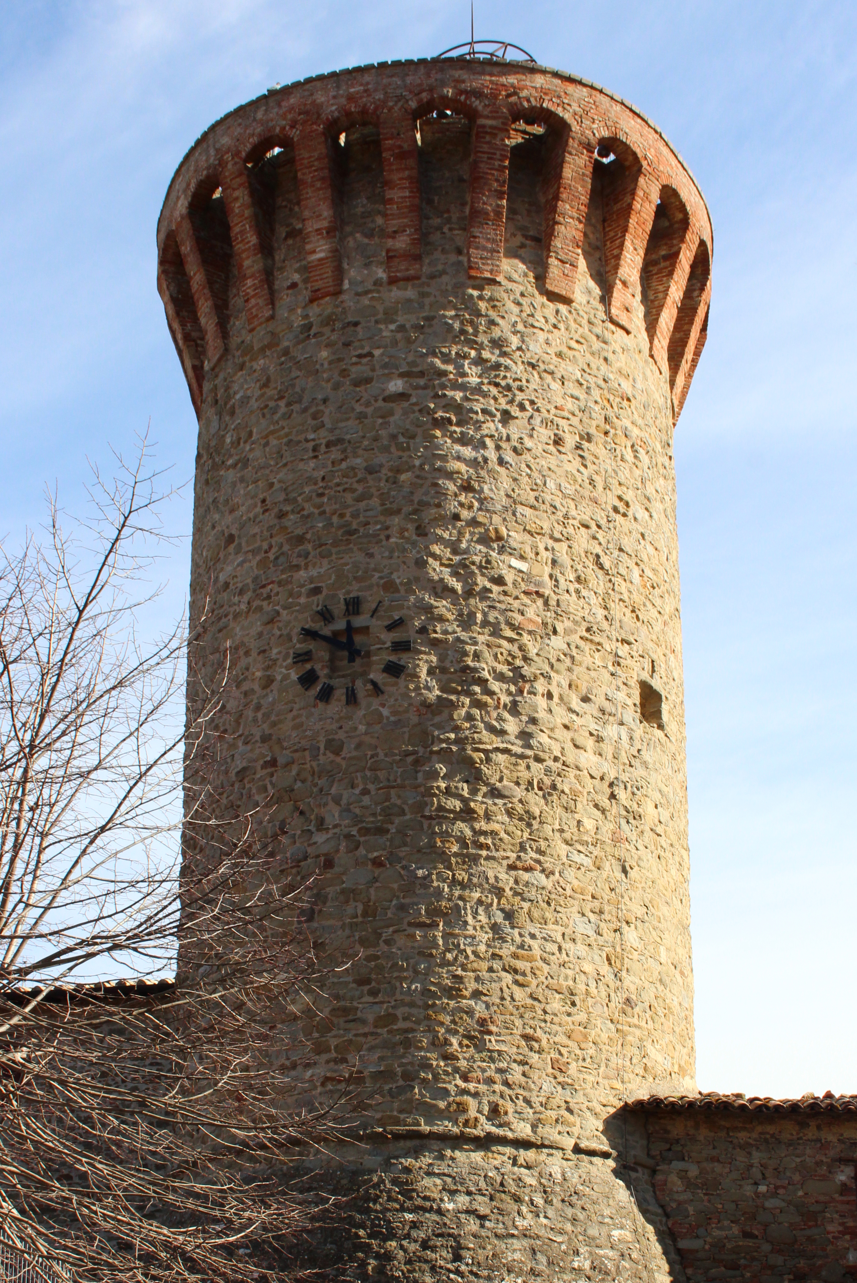 Torre cilindrica, Castiglion Fosco, hamlet of Piegaro, Province of Perugia, Umbria, Italy